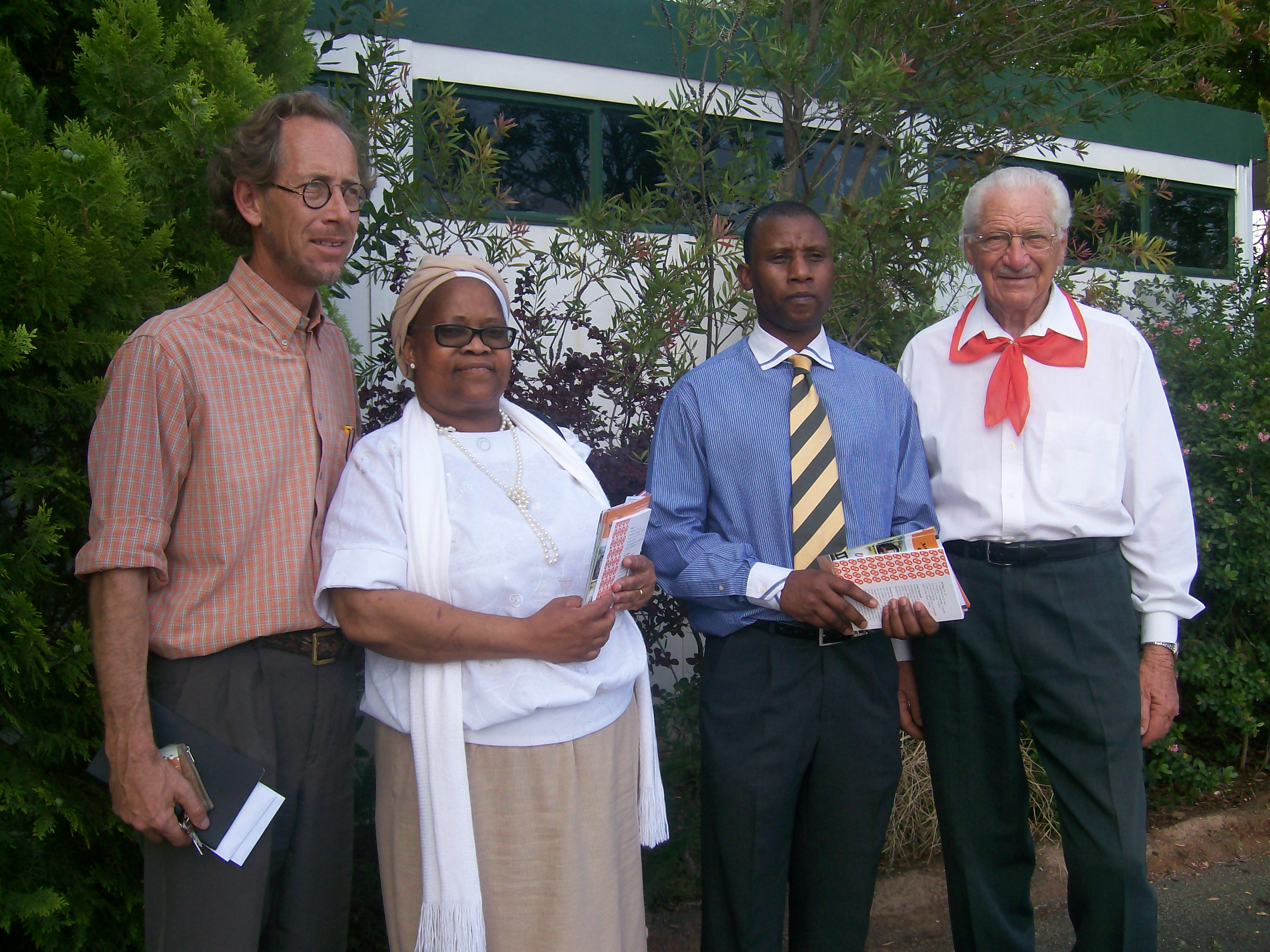 Representatives of the Commission for the Promotion and Protection of the Rights of Cultural, Religious and Linguistic Communities visiting Orania and meeting the founders and leaders of the Orania Beweging, Carel Boshoff IV (far left) and Carel Boshoff (far right) on 23 November 2009.